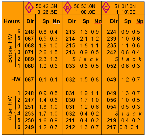 Tidal diamonds as used on British Admiralty charts I made this myself